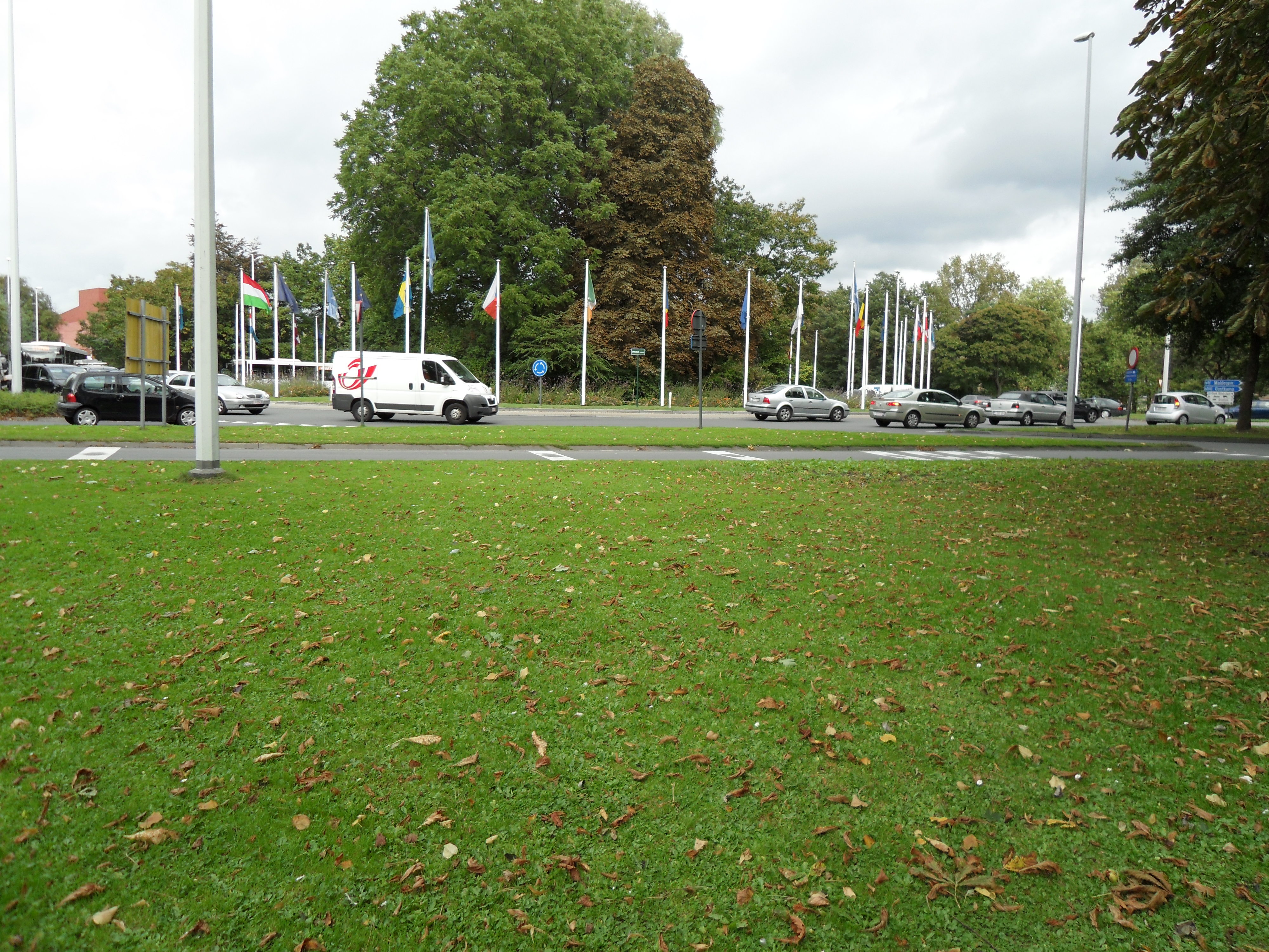 Unescorotonde in Bruges